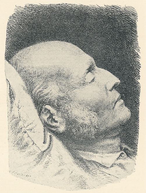 Poul Martin Møller på dødslejet. Litografi over dødsmasken.